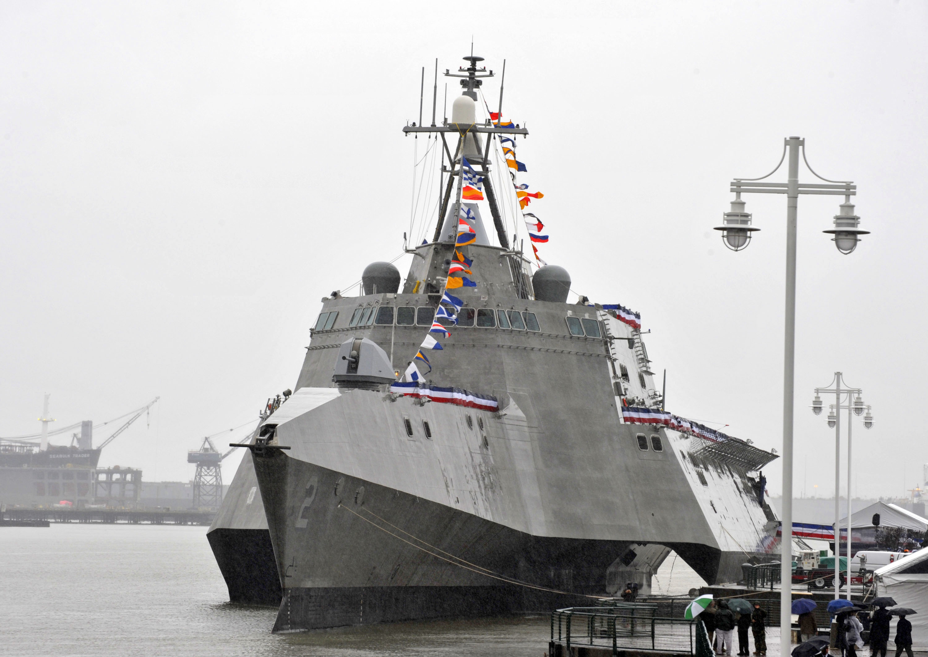 MOBILE, Ala. (Jan. 16, 2010) The new littoral combat ship, USS Independence (LCS 2) is pier side during her commissioning ceremony. Independence is the second of two littoral combat ships designed to operate in shallow water environments to counter threats in coastal regions. (U.S. Navy photo by Mass Communications Specialist 1st Class Tiffini Jones Vanderwyst/Released)